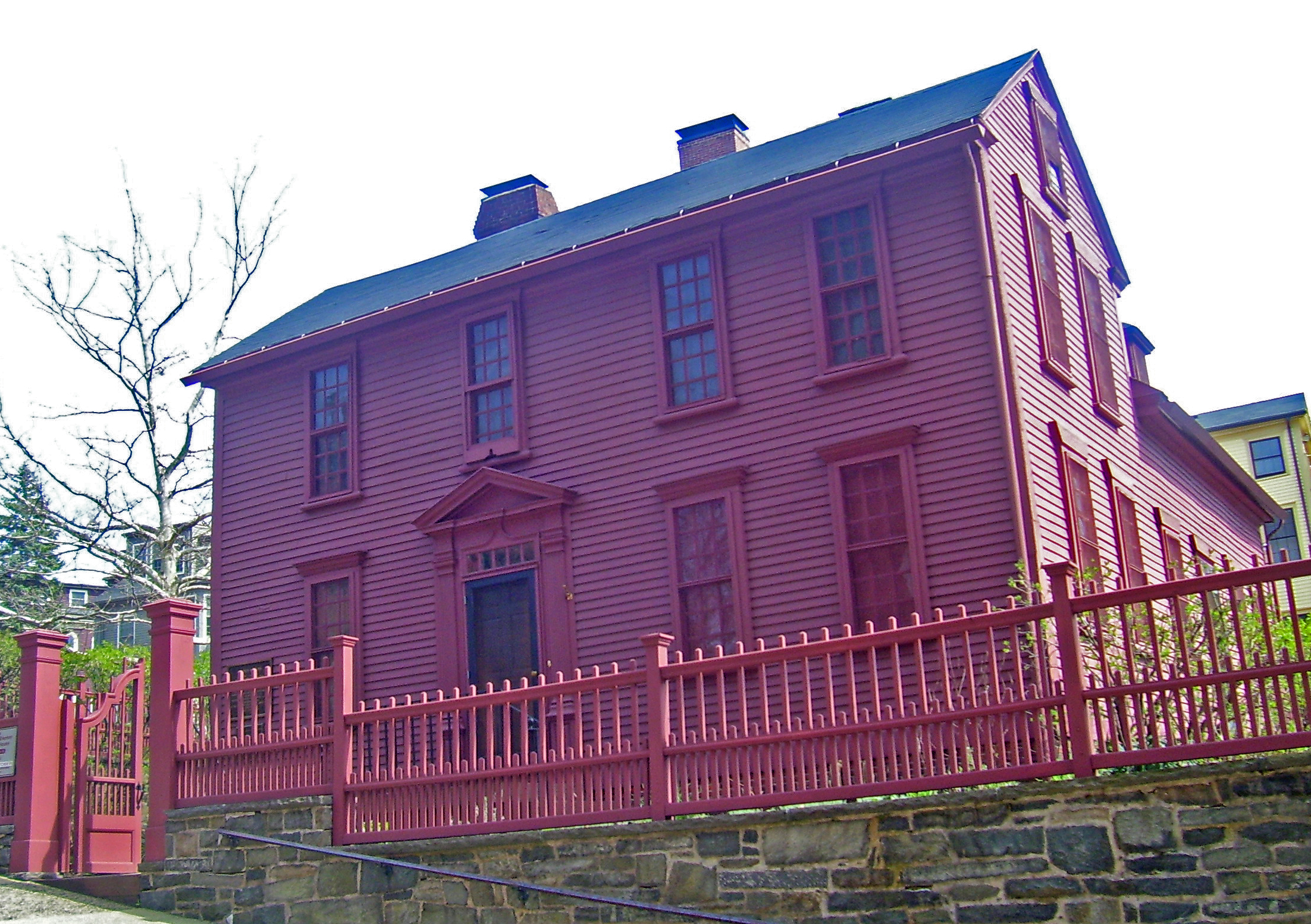 Gov. Stephen Hopkins House in Providence, RI, USA